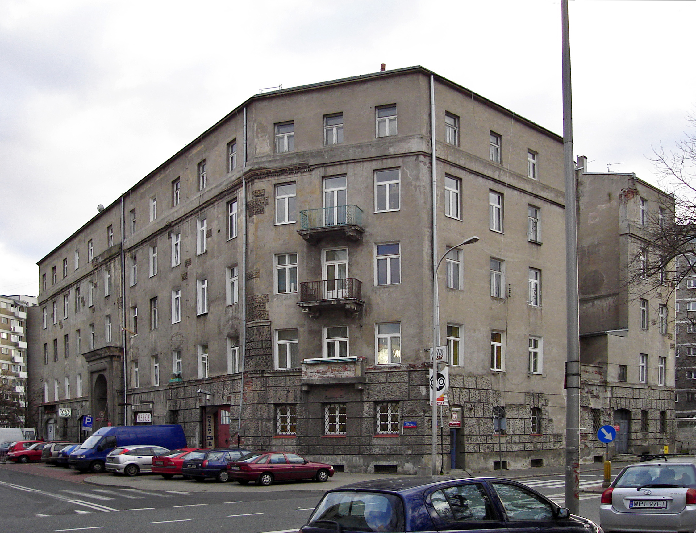 Pocztowej Kasy Oszczędności House, Ludna9 Street, Warsaw, Poland